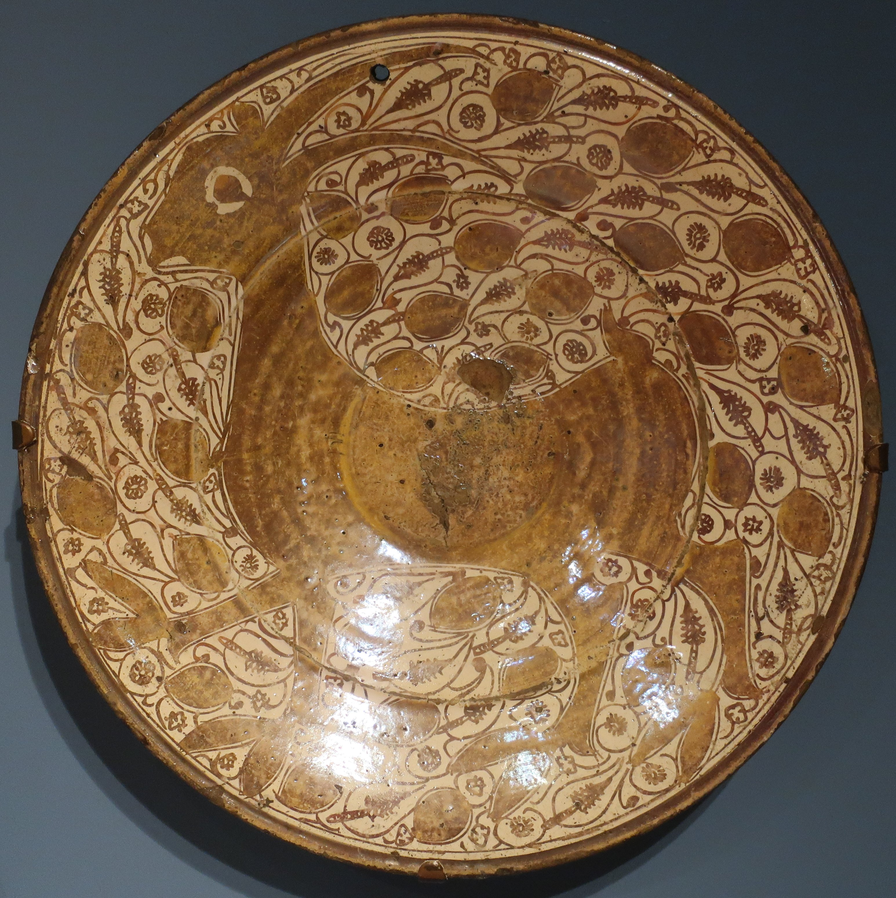 Luster Hispano-Moresque charger with horned goat and foliate motifs, Valencia, Spain, Nasrid period, late 15th-early 16th century, earthenware with tin glaze and gold luster, Newark Museum